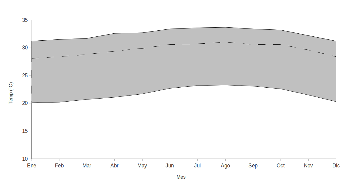 Graph of the range and average (dotted line) of maximum temperatures in Puerto Rico